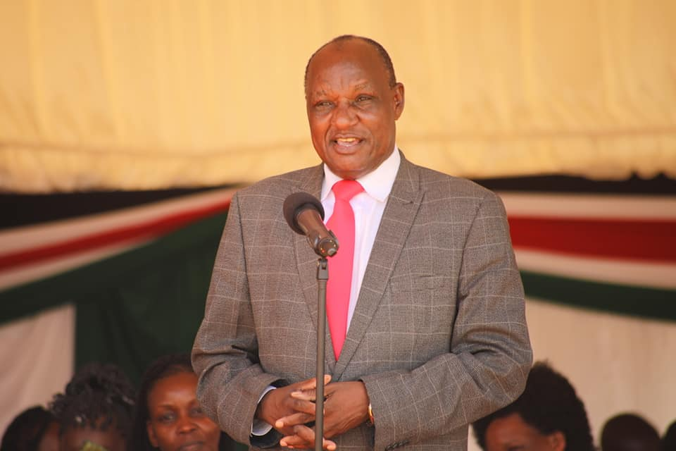 A photo of the deputy governor of tharaka nithi county.